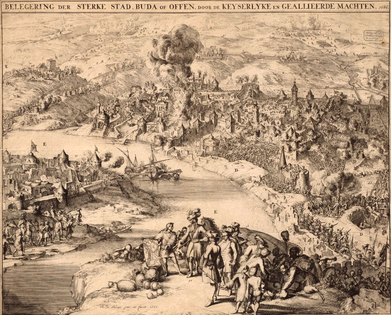 Imperial troops bombarding and pouring into fortified city on r. bank of river; officers in foeground view map of besieged city. 1686 Etching